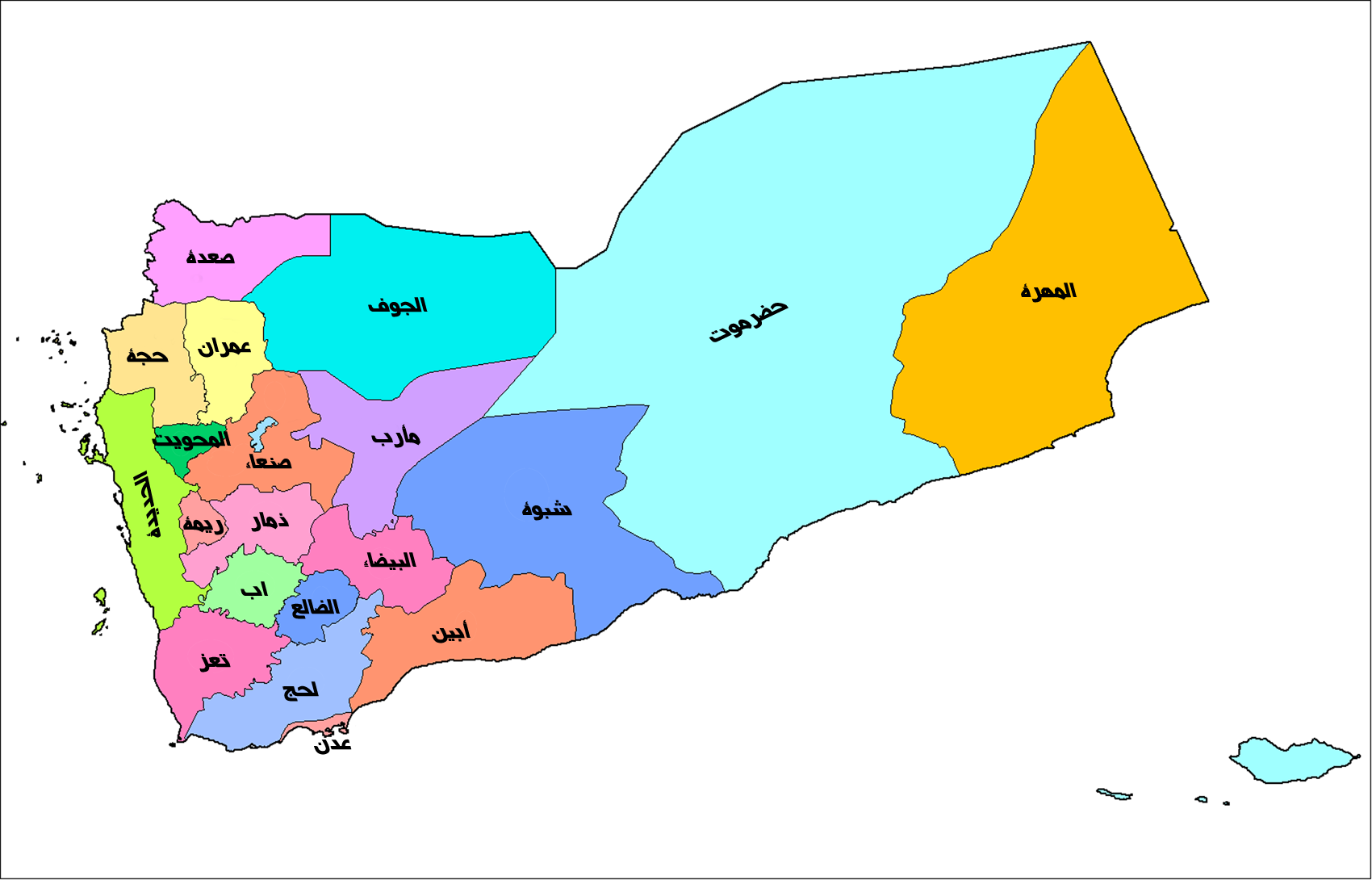 21 Yemeni Governorates